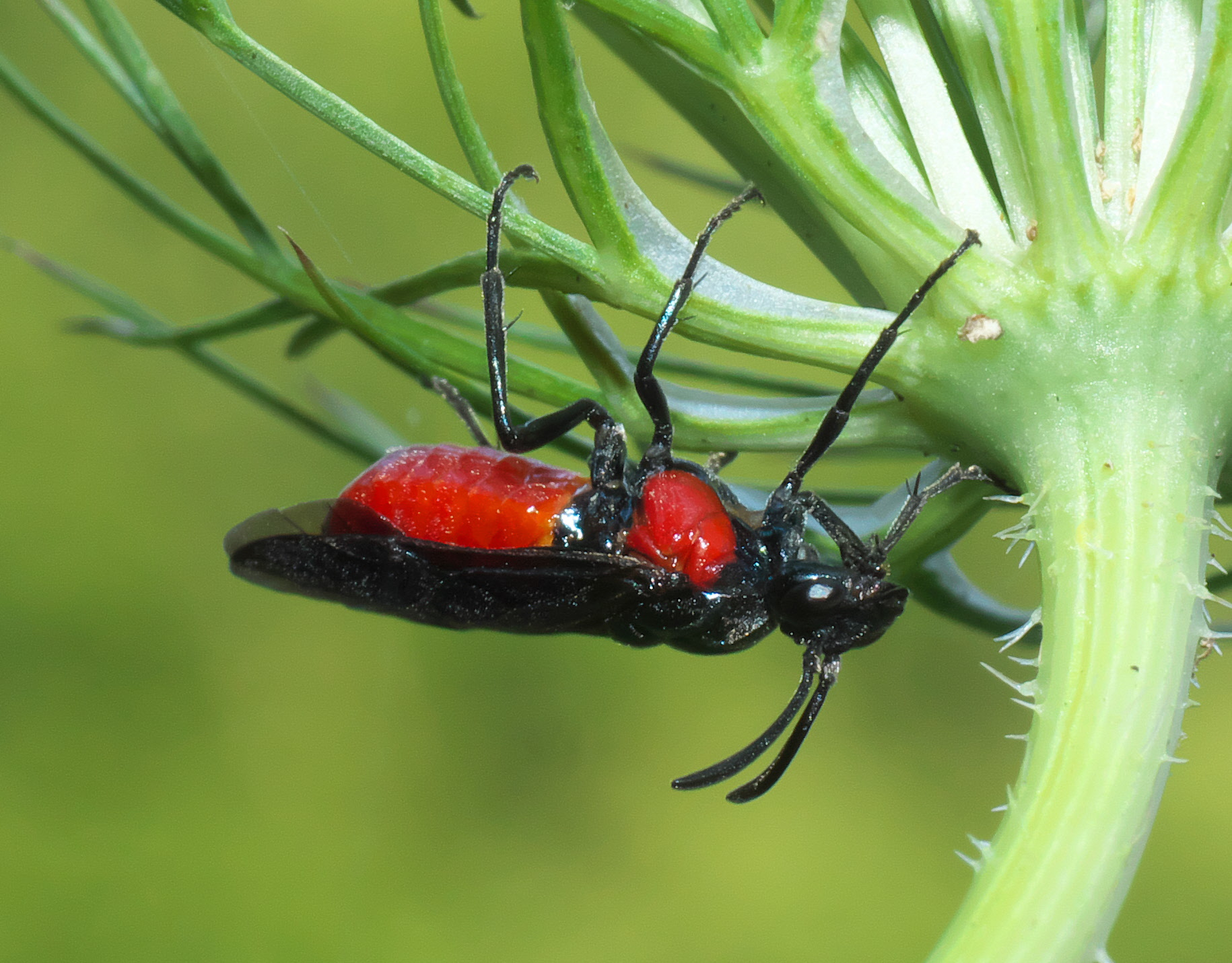 Arge humeralis, Poison Ivy Sawfly, ID Confidence: 88